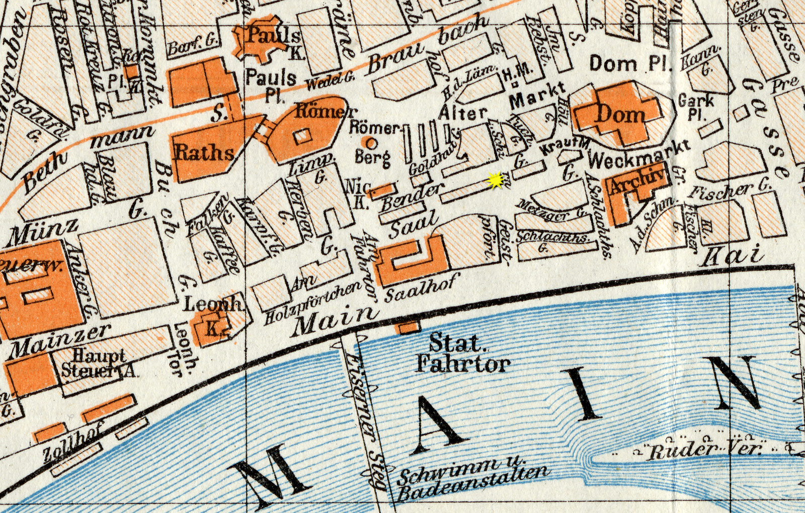 Frankfurt on the Main: Position of the Scharnhaeuser (scharn houses) as seen on a map of the old town